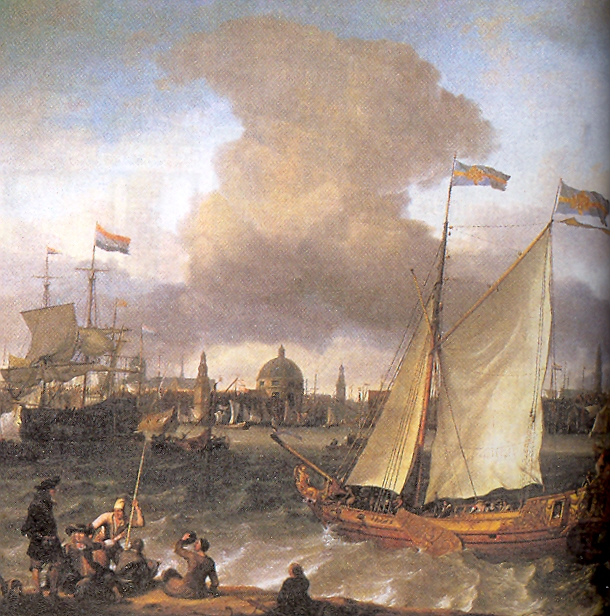 Port of Amsterdam with an ancient ship